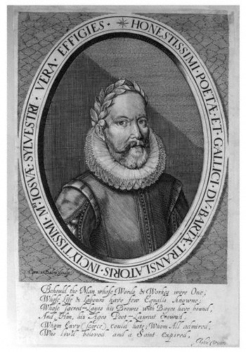 Joshua Sylvester (1563-1618)